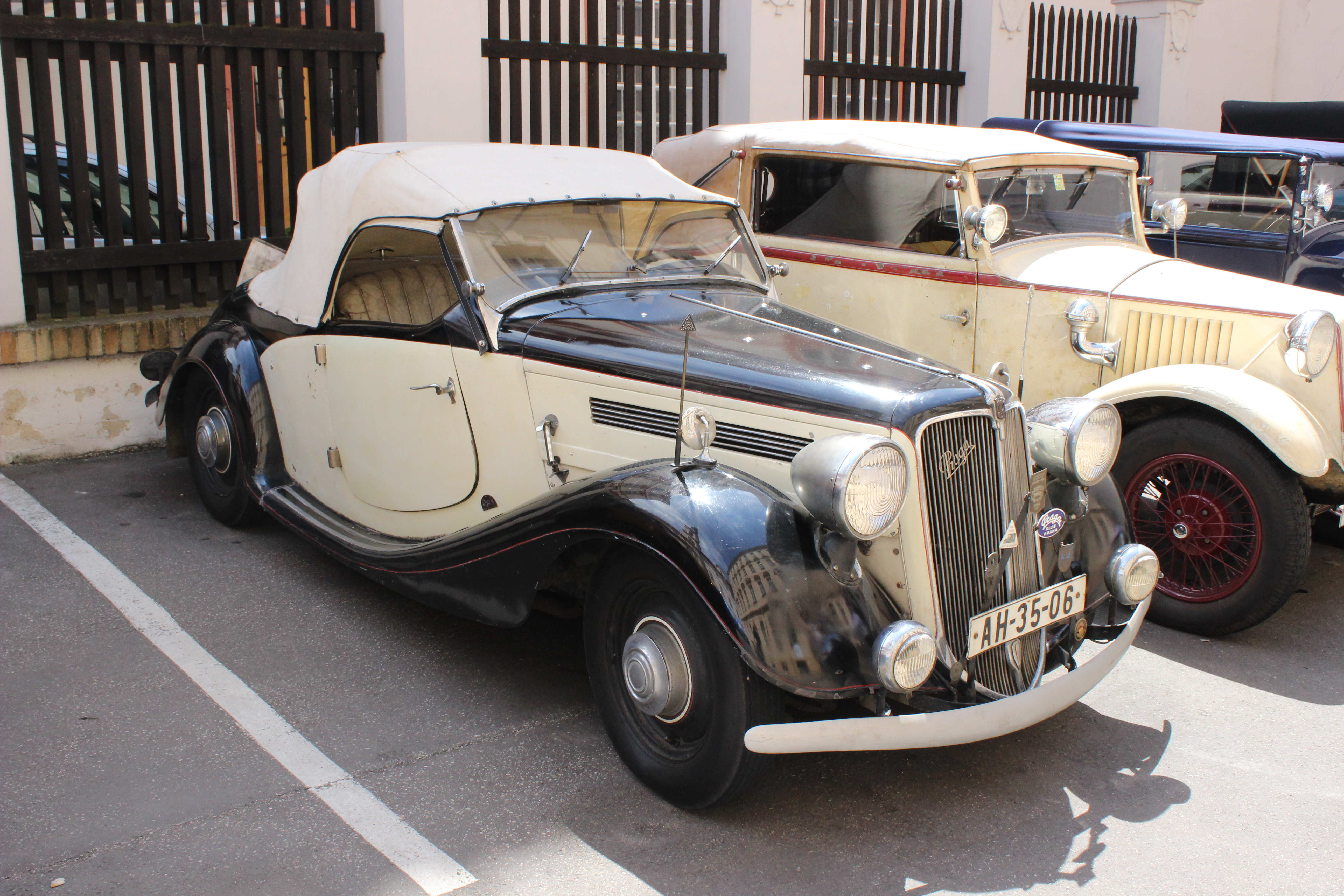 An Uhlík-bodied 1936 Praga Lady Roadster exhibited at a show of "A Cantury of Czech Convertibles and Coupés" organized on the premises of the Faculty of Transportation of the Czech Technical University in Prague.